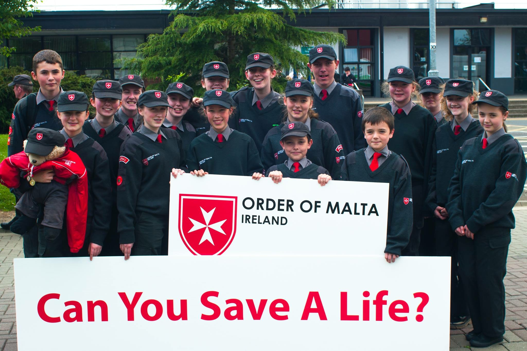 Order of Malta Ambulance Corps Cadet